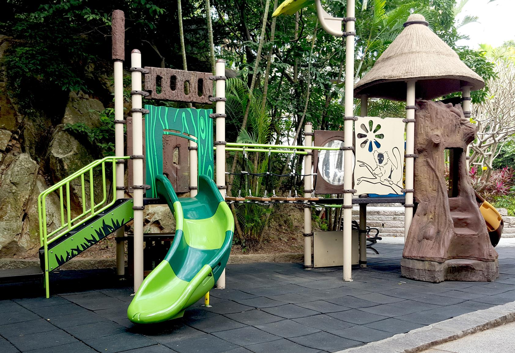 Mong Ha Hill Municipal Park